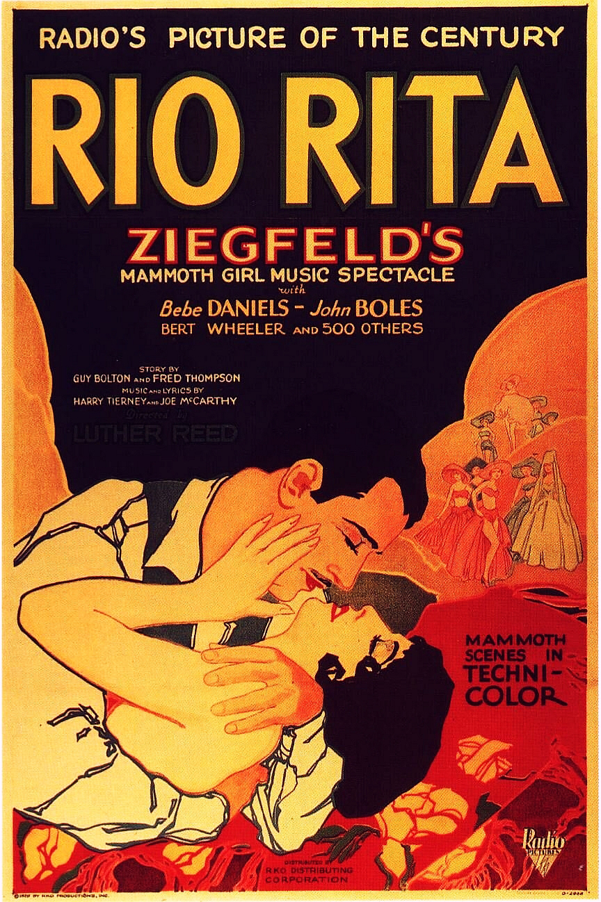 Low-res image of original poster for the film Rio Rita (1929), featuring stars Bebe Daniels and John Boles